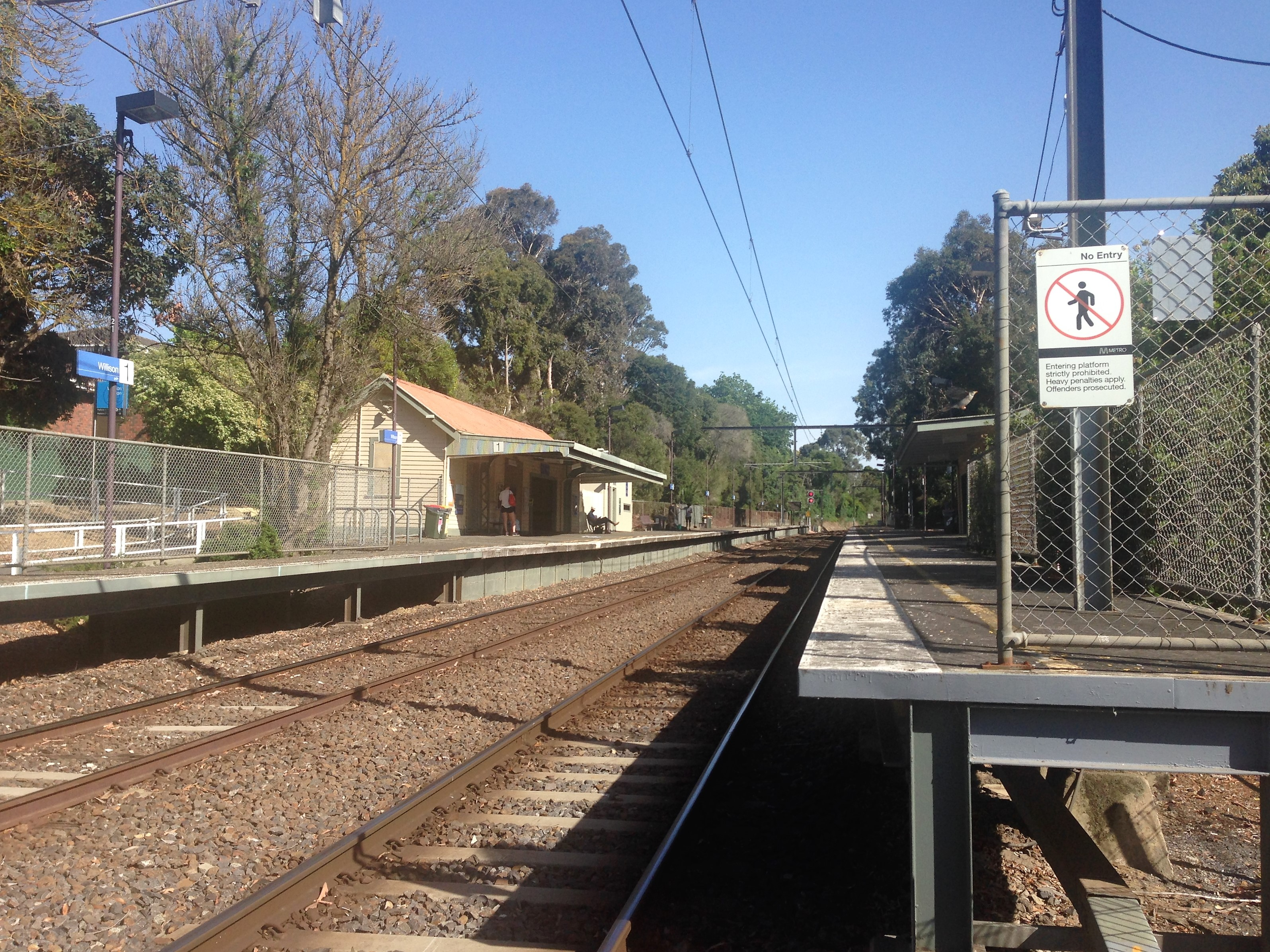 View of Willison Station platforms from pedestrian level crossing